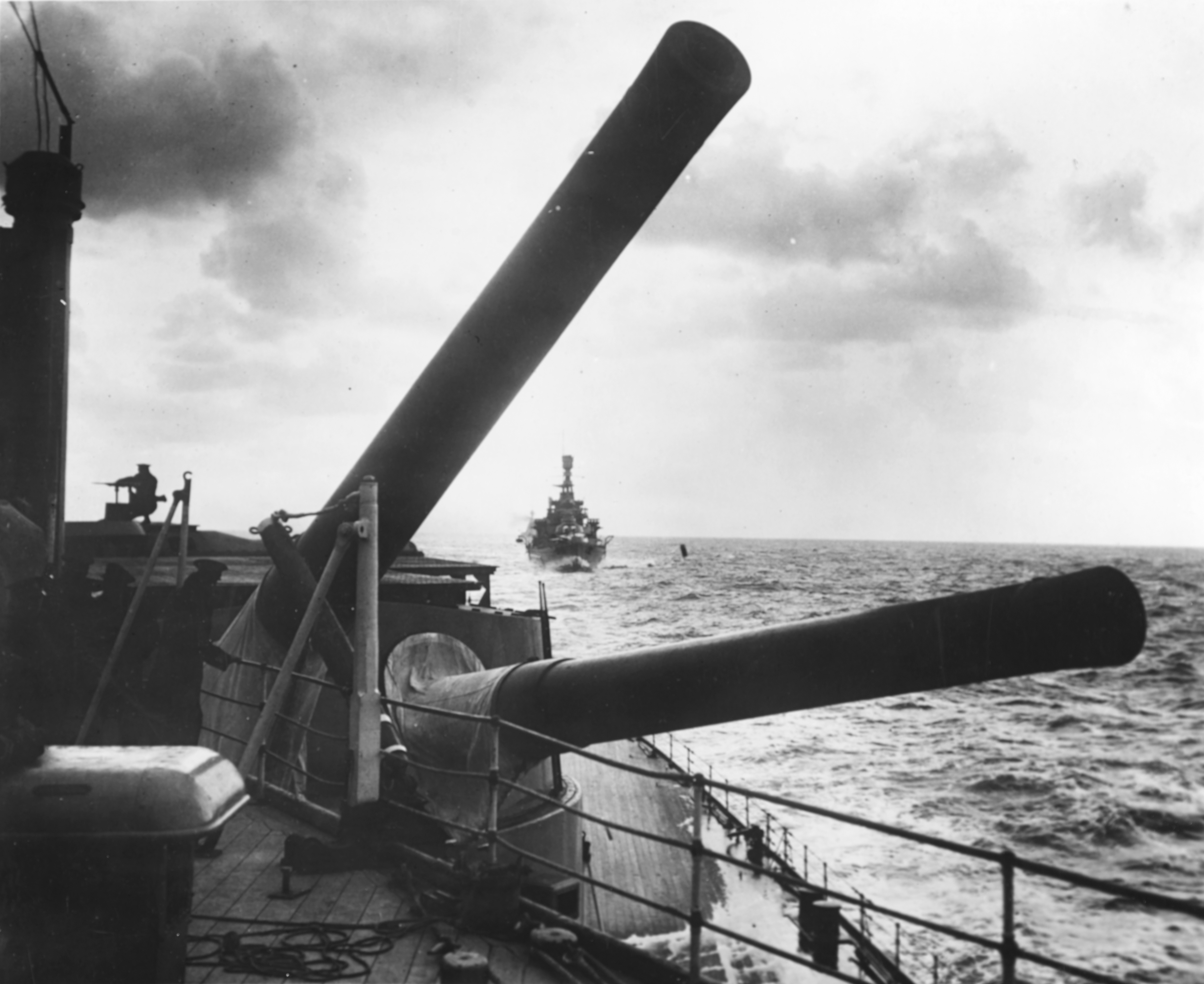 Caption : "HMS Hood (British Battlecruiser, 1920-1941). View looking aft, showing her 15" guns, taken while she was on maneuvers off Portland, England, circa 1926. HMS Repulse is next astern. Photo by Underwood & Underwood. The original is dated 8 November 1926."